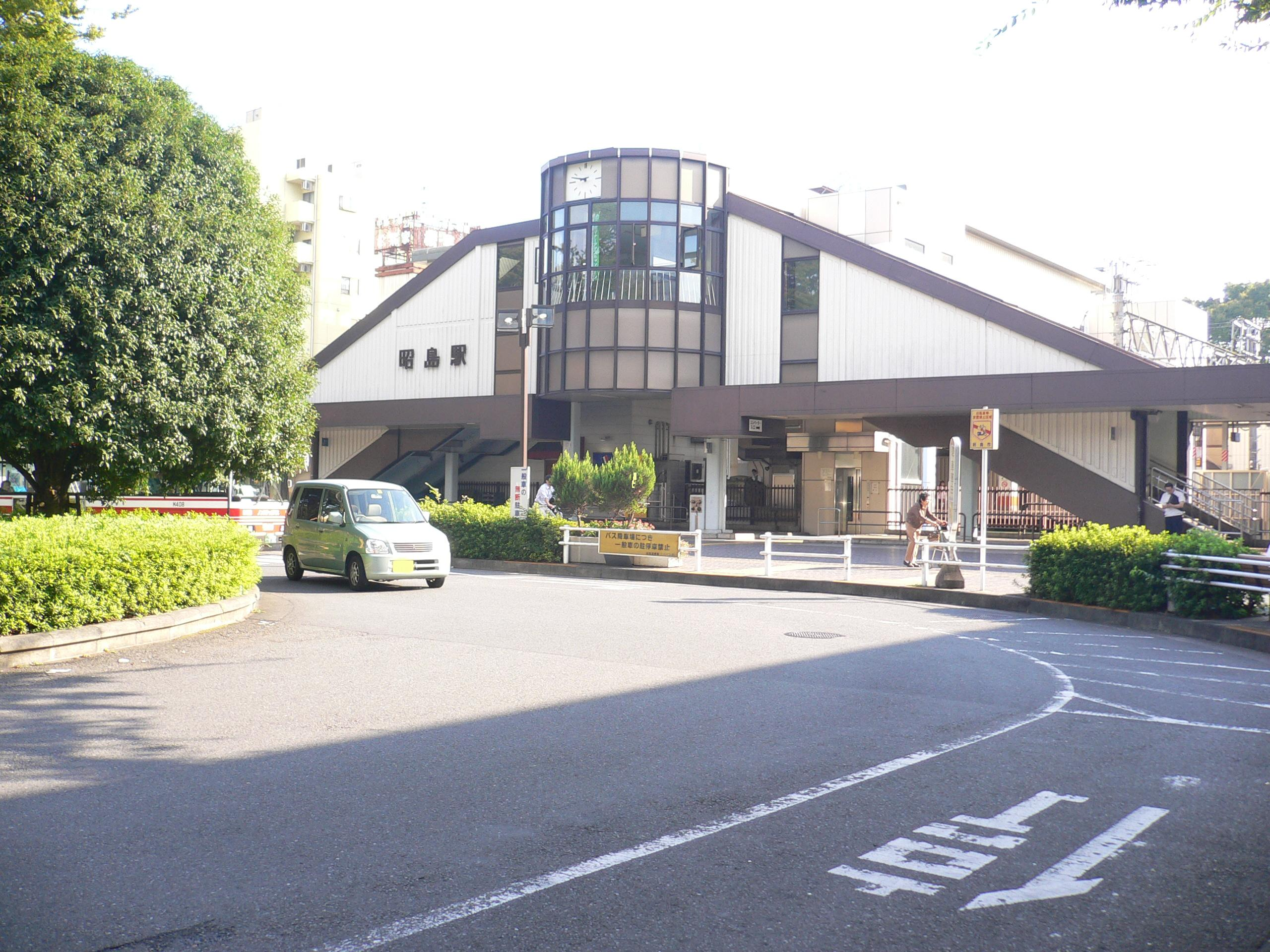 Akishima Station (昭島駅), Akishima C, Tokyo M.